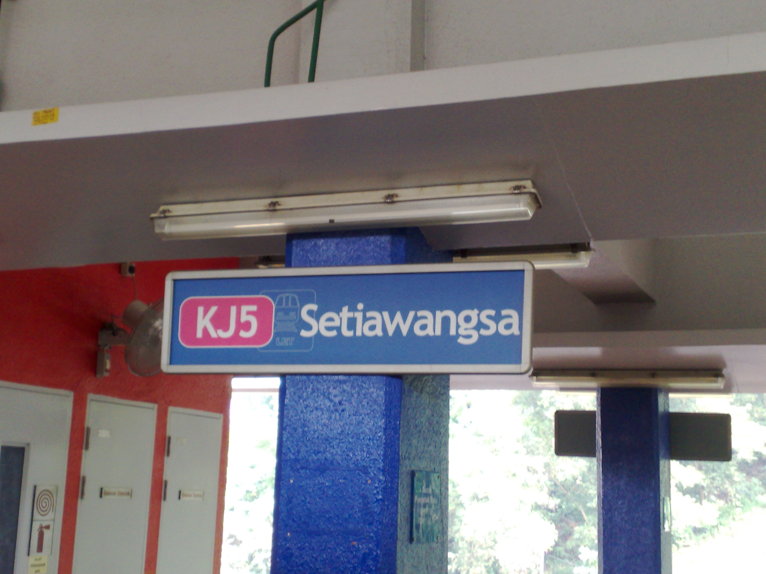 Setiawangsa LRT